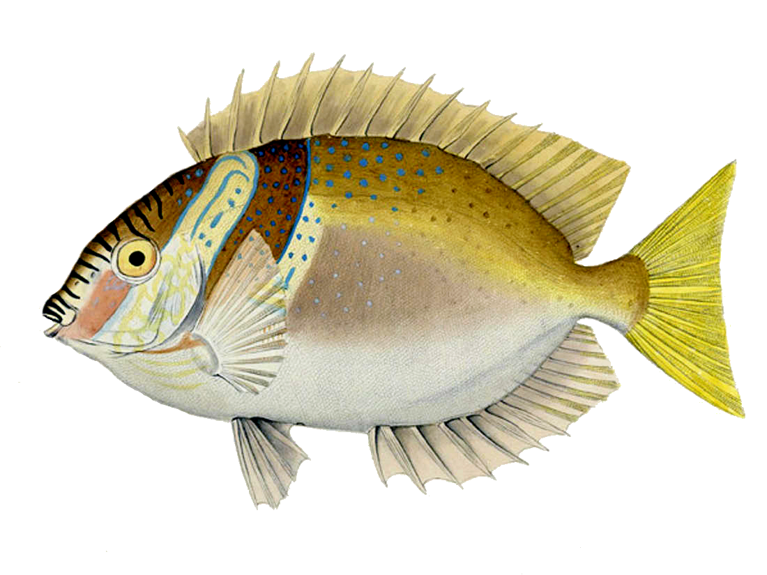 Siganus virgatus